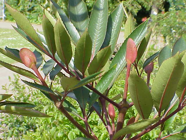 Red Alder, ButterspoonAfrikaans: Rooiels Family: Cunoniaceae Image No. 2